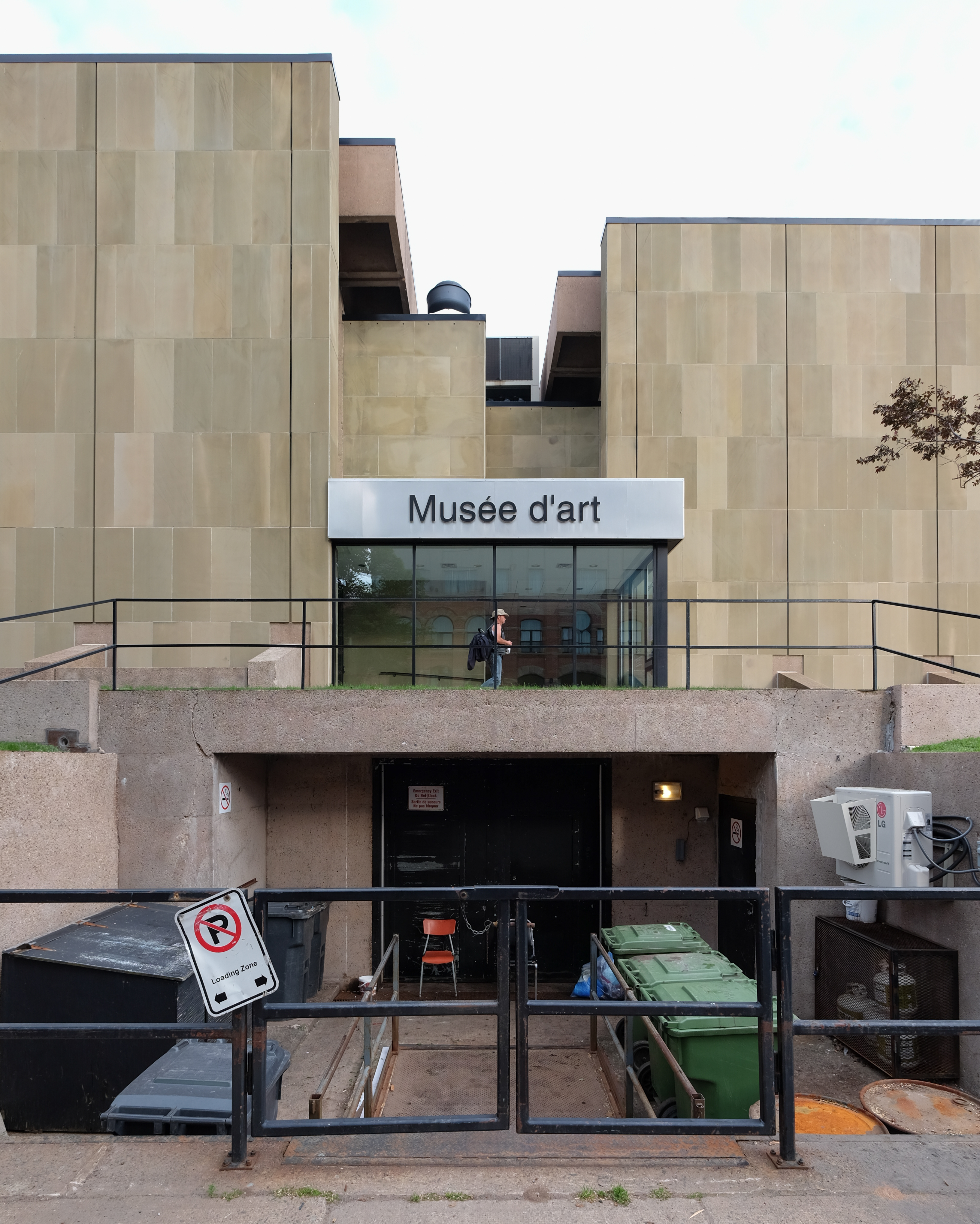 How buildings work